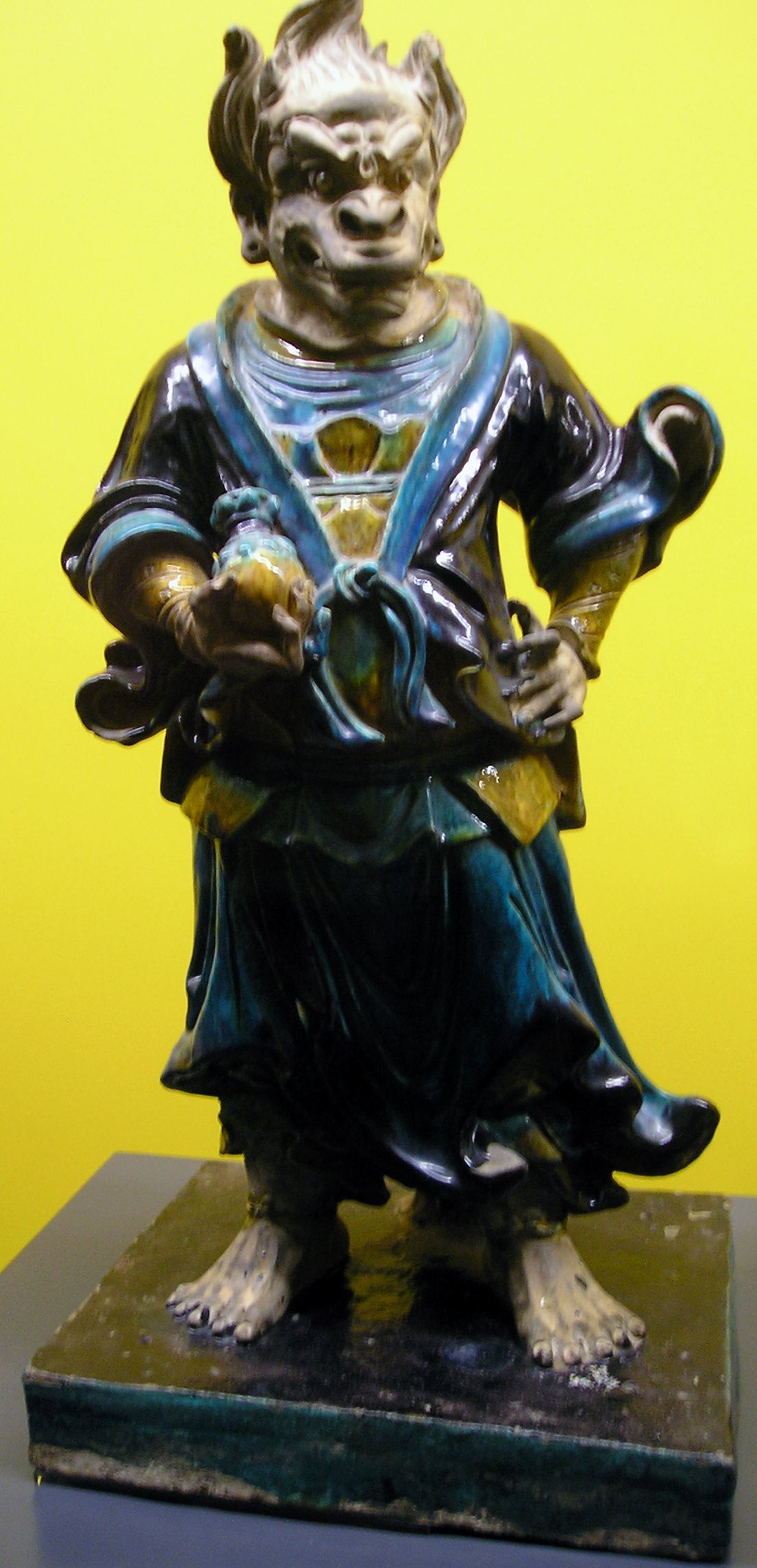 Demon figurine held in the Chinese Gallery, Royal Ontario Museum, Toronto. Described as "Hell's torturer". Made of glazed earthenware from Henan Province, and dating to the 16th century (Ming dynasty). Collection #923.21.303.